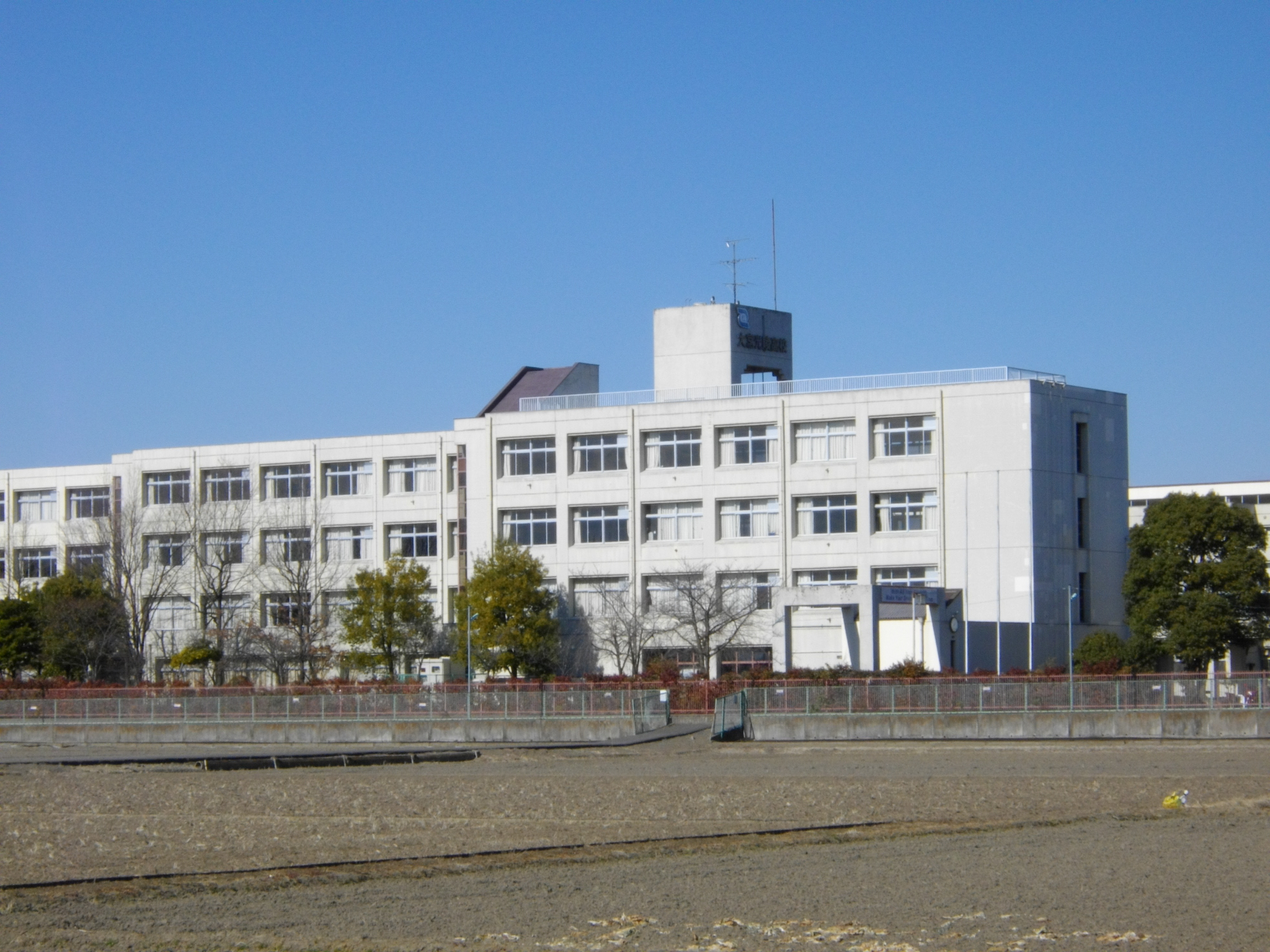 Omiya-Koryo High School